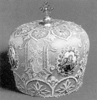 From en-wiki Liturgical Headdress: Mitre of Bishop Sztojkovics, Viennese Master, circa 1860, silver thread embossed embroidery, gems, enamel. Stolen in 1989 from the Serbian Orthodox Cathedral, Szentendre, Hungary Митра будимског епископа Арсенија Стојковића (1804-1892) из приближно 1860. Украдена је 1989. из српске православне Саборне цркве у Сентандреји, Мађарска. All information the Bureau provides at this site is considered public information and may be distributed or copied, subject to Sections 701 and 709 of Title 18, United States Code, which prohibit the unauthorized use of the FBI seal or the use of the words "Federal Bureau of Investigation," the initials "FBI," or any colorable imitation of these words and initials "in a manner reasonably calculated to convey the impression that such [activity] . . . is approved, endorsed, or authorized by the Federal Bureau of Investigation."